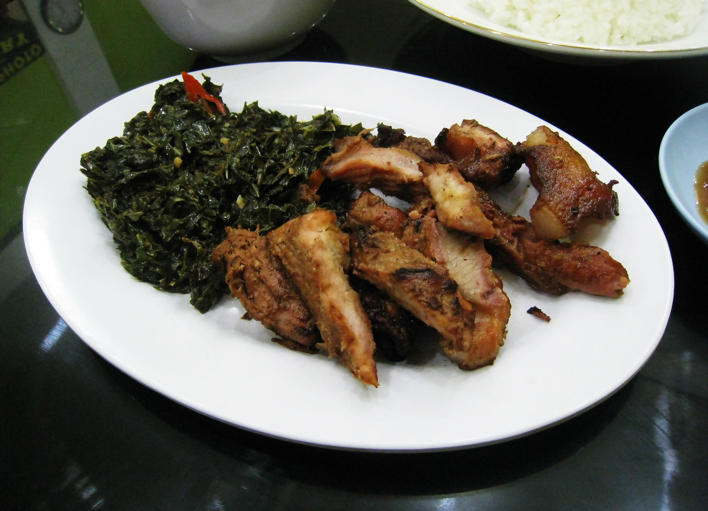 Se'i babi, smoked pork, specialty of Kupang city, East Nusa Tenggara, Indonesia.